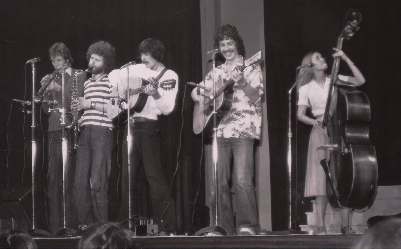 Telephone Bill and the Smooth Operators (folk/country/swing group) performing at the 1977 Norwich Folk Festival, UK (photograph by Tony Rees)